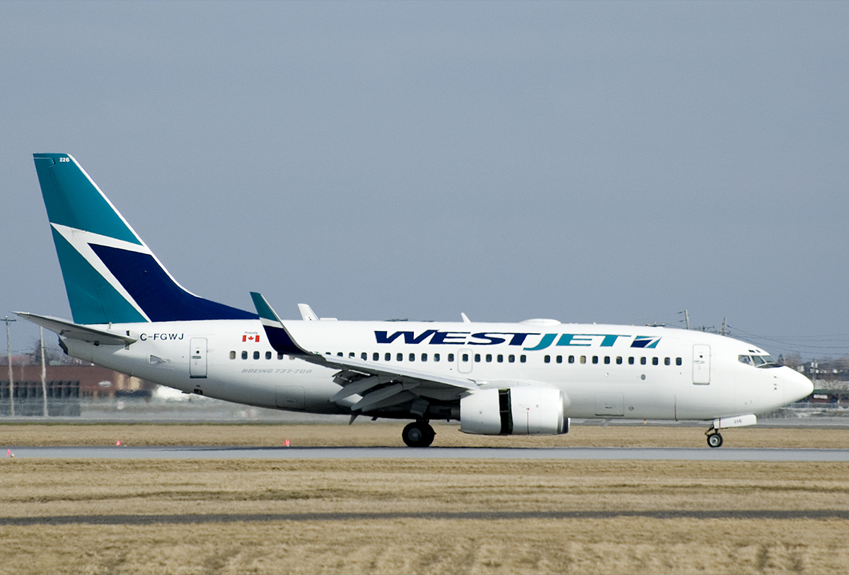 Westjet 737-700 landing at Montréal-Pierre Elliott Trudeau International Airport on a sunny Saturday afternoon.